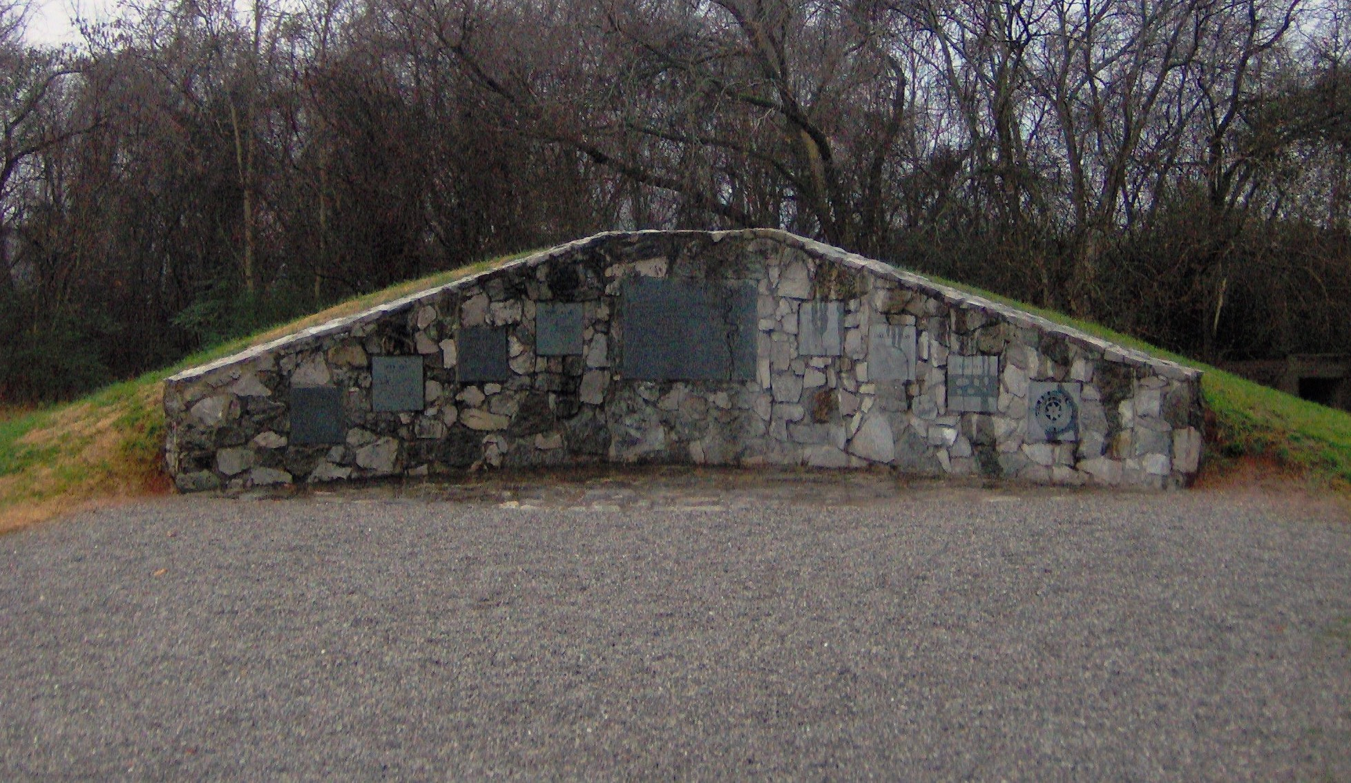 Burial mound at the Sequoyah Museum in Vonore, Tennessee, in the southeastern United States. The mound contains 191 burials that were excavated in the Tellico Archaeological Project, 1969-1979. The burials were reinterred here in the Spring of 1986. The right half of the center plaque displays Timberlake's "Draught of the Cherokee Country"; the left half reads: A PRINCIPAL PEOPLE IN MEMORY OF THE CHEROKEE PEOPLE WHO LIVED IN THE LITTLE TENNESSEE VALLEY PRIOR TO THE INUNDATION OF THE TELLICO RESERVOIR IN 1979. ARCHAEOLOGICAL INVESTIGATIONS WERE CONDUCTED AT THE MAJOR 18TH CENTURY CHEROKEE SITES. THE REMAINS OF 191 INDIVIDUALS RECOVERED IN THOSE EXCAVATIONS ARE BURIED IN THIS MOUND.